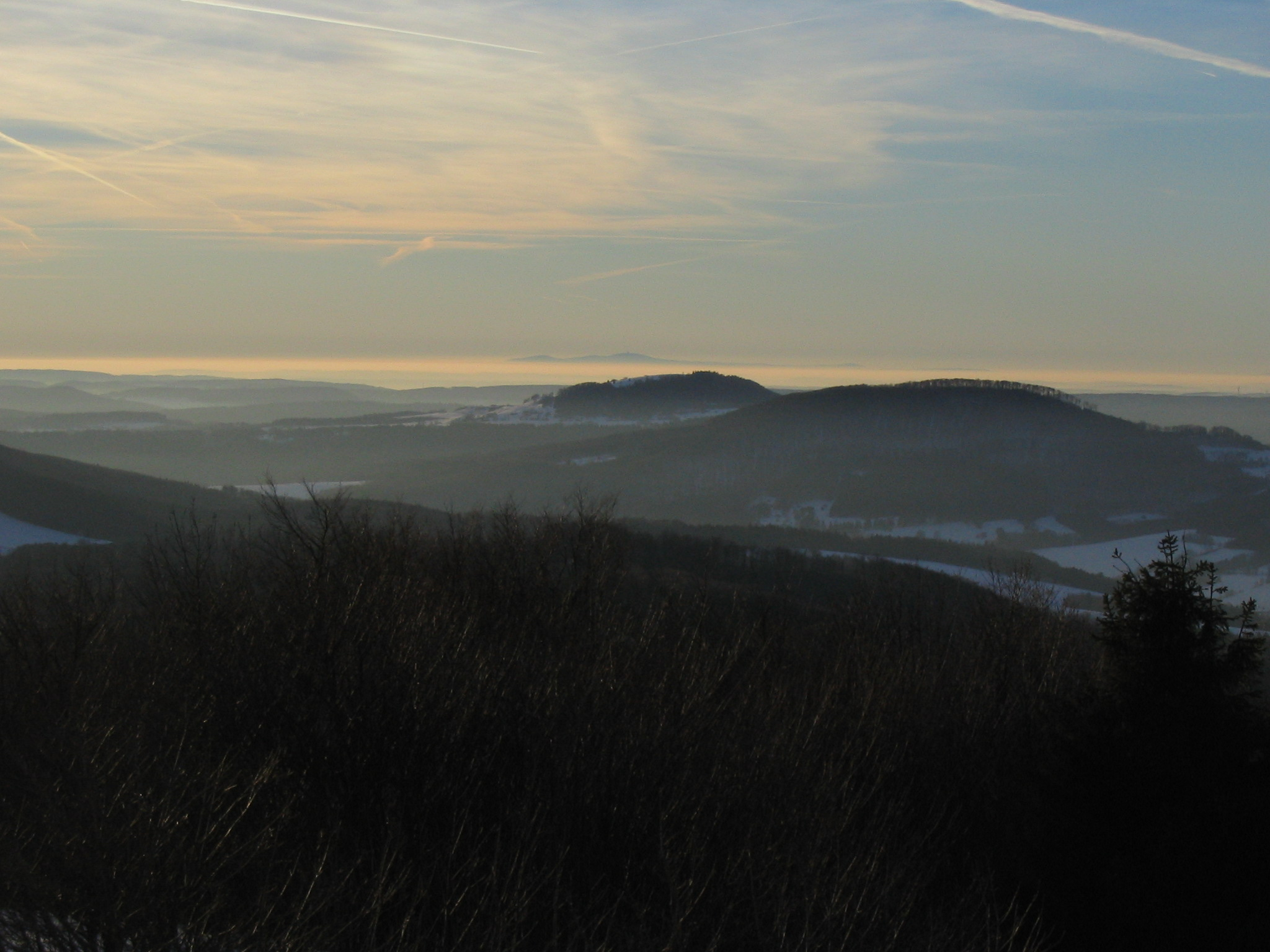 View from the Kreuzberg in the Rhön Mountains westward about a distance of 100 km to the Taunus range during meteorological inversion.